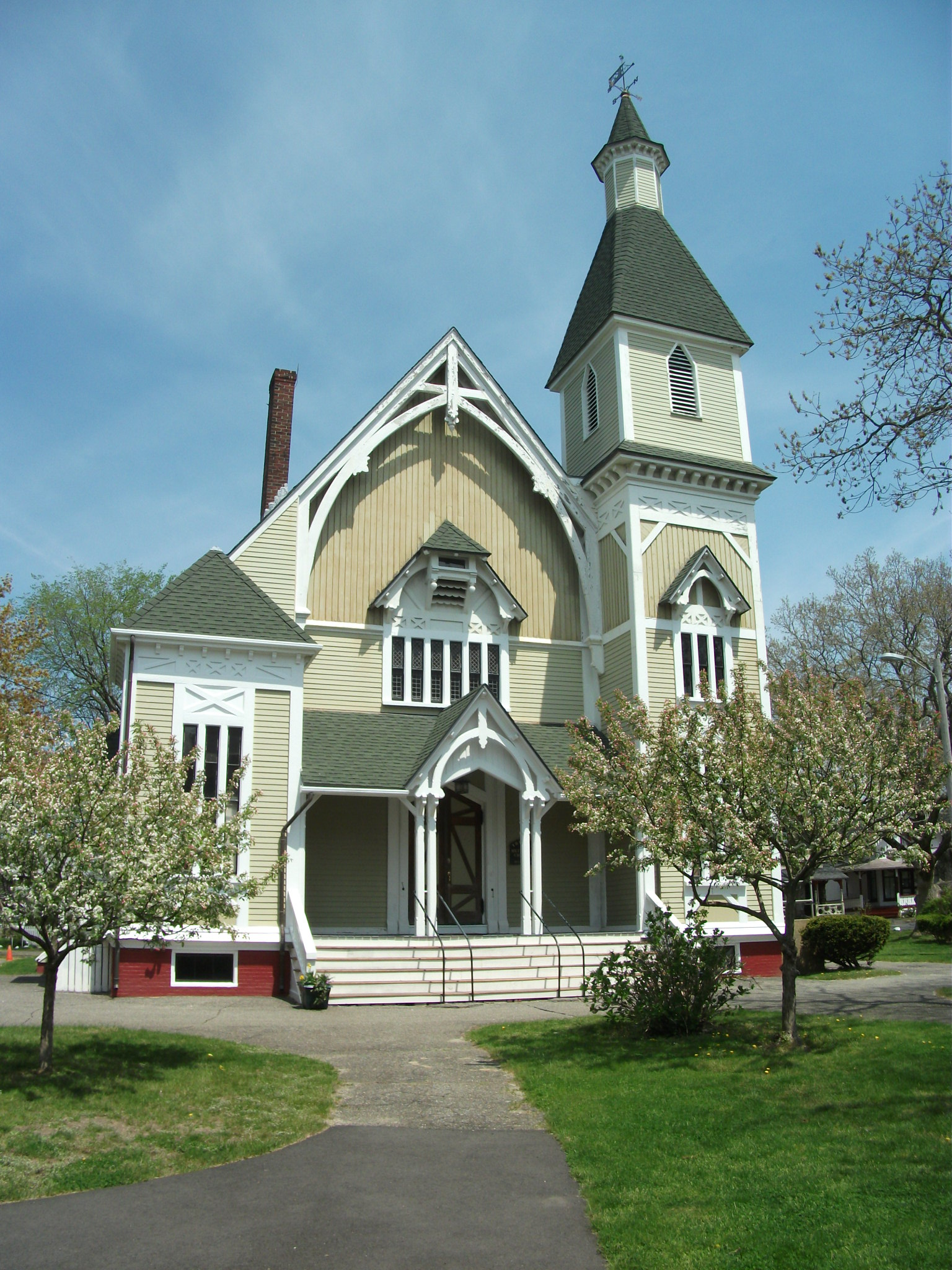 Church in Oak Bluffs, Massachusetts Wooden Carpenter Gothic style church.